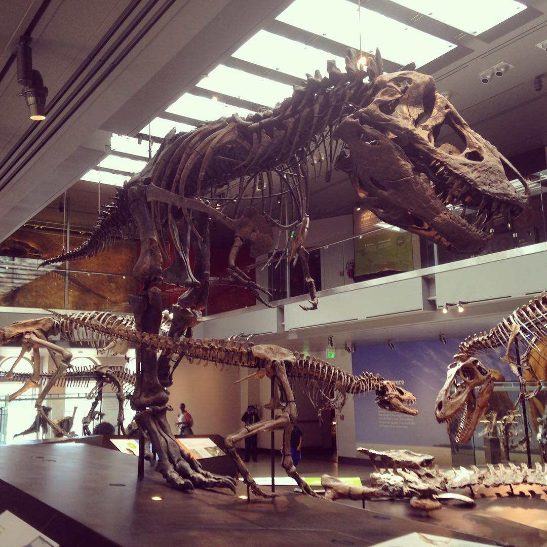 Mount of the fossil skeleton Tyrannosaurus Rex, Thomas, on display in Los Angeles